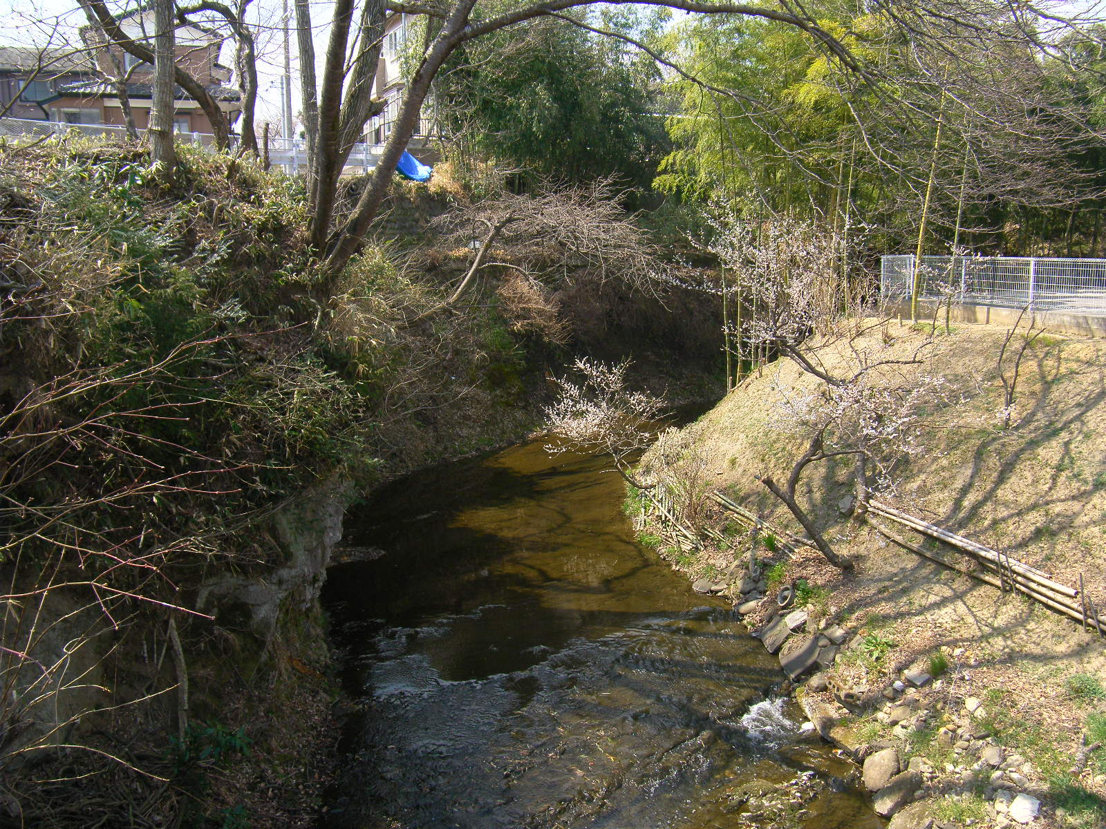 Zaru River. Taihaku ward, Sendai, Miyagi prefecture, Japan.